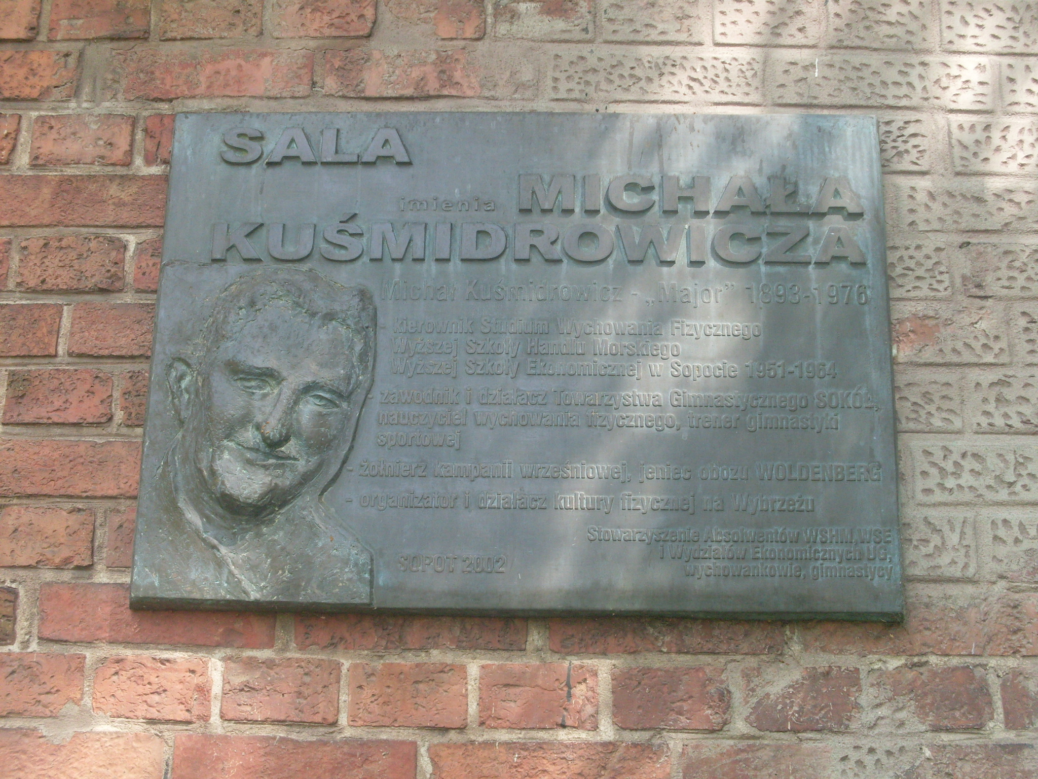 Plaque for Michal Kusmidrowicz at Faculty of Management by Gdańsk University. This faculty localisation in Sopot.